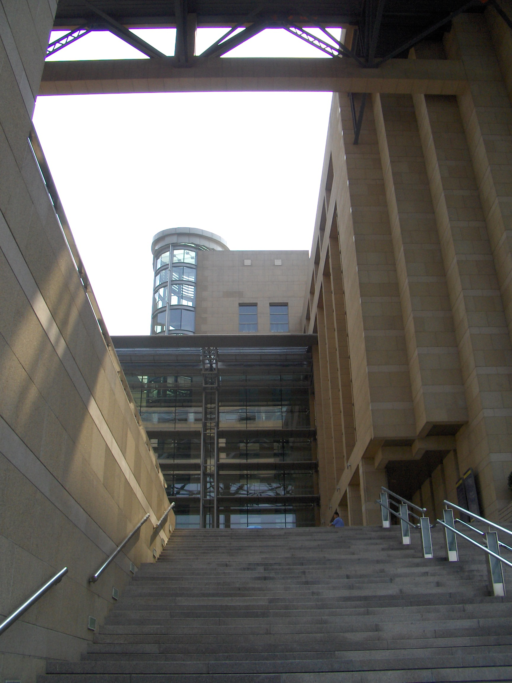 The library of the Chinese Academy of Sciences in Beijing